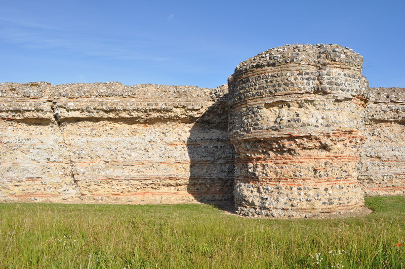 Burgh Castle Bastion and Wall, near to Burgh Castle, Norfolk, Great Britain. A view of one of the bastions. The original appearance can be seen at the top of the wall, knapped flint. The rest has been stolen for building projects, including the church. The layers of tiles mean your know this is Roman, they liked their tiles! Another example is at Hales, Norfolk TM3896 : Roman Tile and Caistor St Edmund, Norwich. A very slight 'normal fault' (where the right part of the wall has slipped downwards) can be seen to the left. Although this is a human made wall it still mirrors real geological faults.